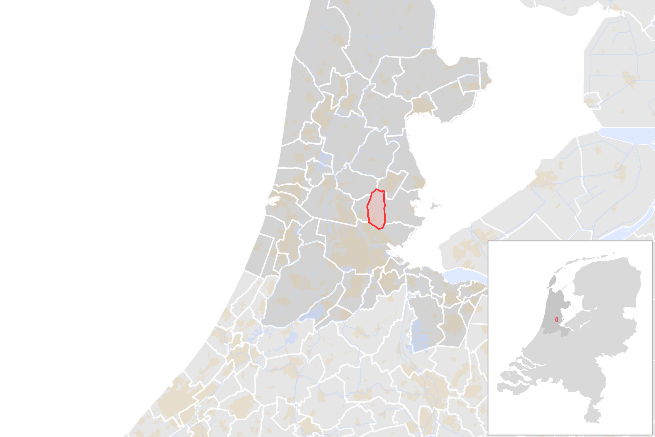 Locator map showing municipality boundary of one of the 390 Dutch municipalities (as of 2016)